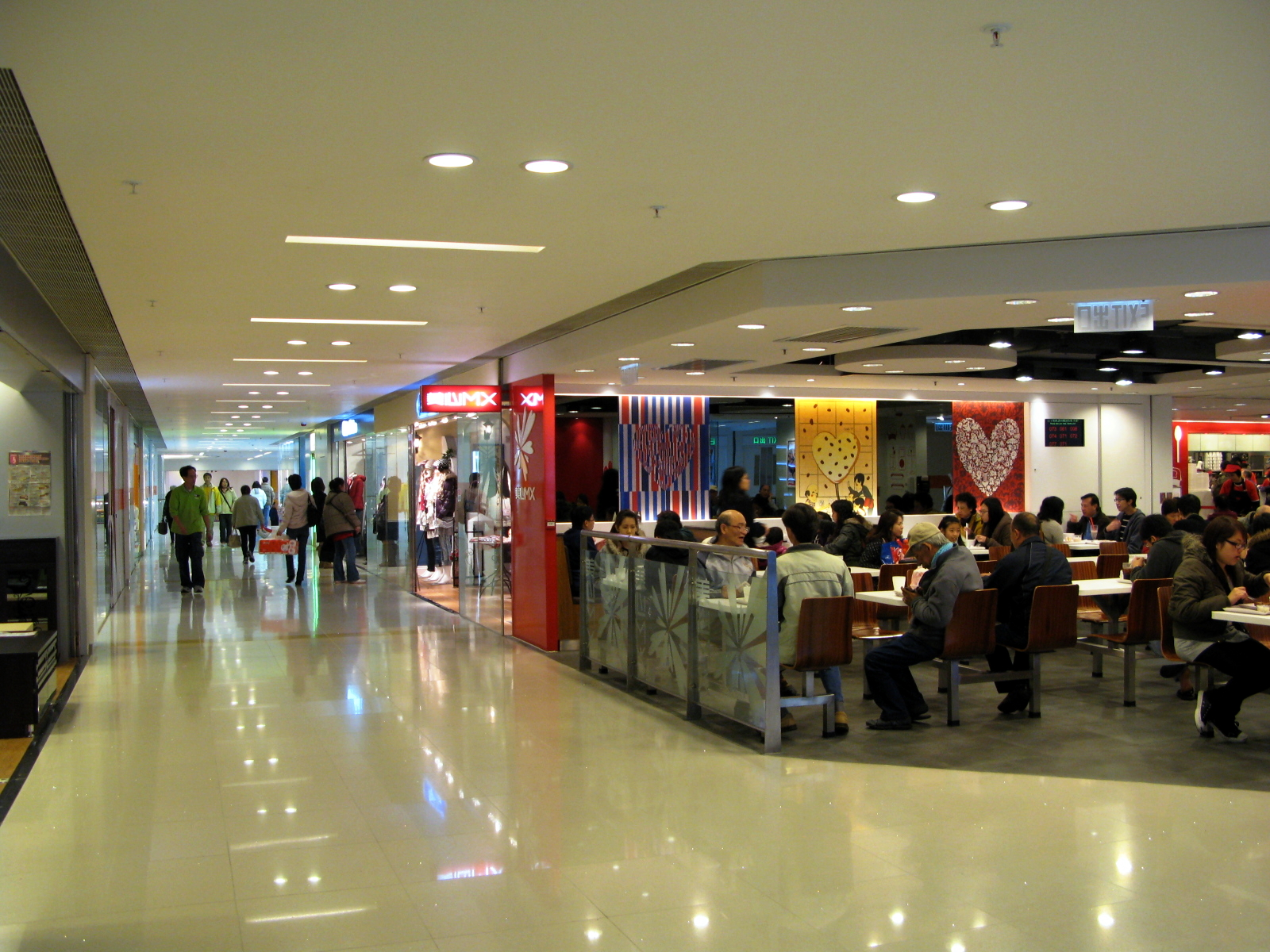 Cheung Fat Estate Shopping Centre Void